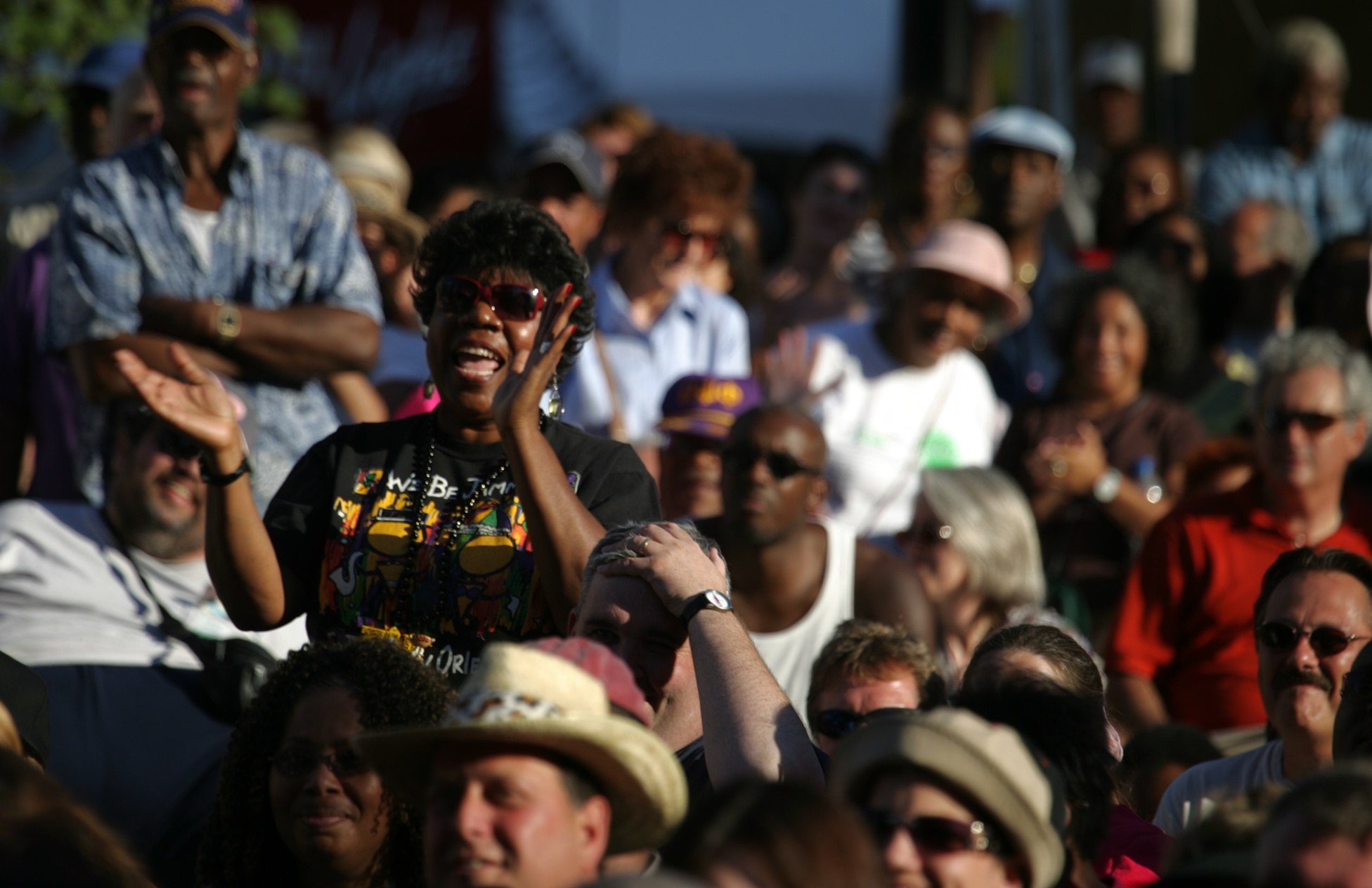 A diverse crowd cheer The Blind Boys of Alabama performing on the Campus Martius stage at the enlarged and invigorated Detroit International Jazz Festival. A grant by the Knight Foundation helped expand the free festival and insure the future of the once financially struggling event. Sunday Sept. 4, 2005 Photo by J. KYLE KEENER